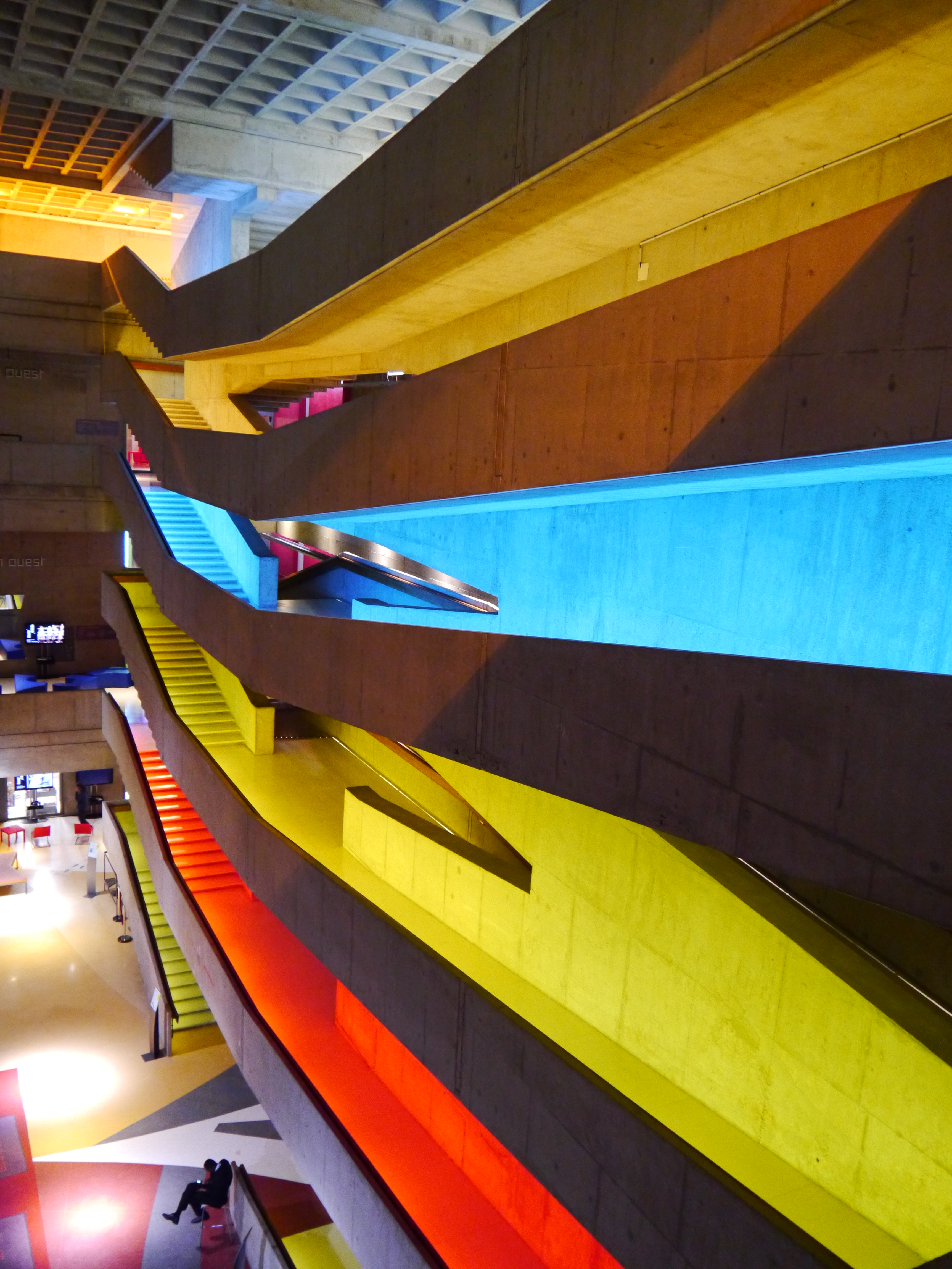 Atrium du CND